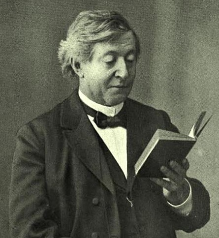 Theodor Zahn, Professor of Theology, Erlangen, circa 1908.